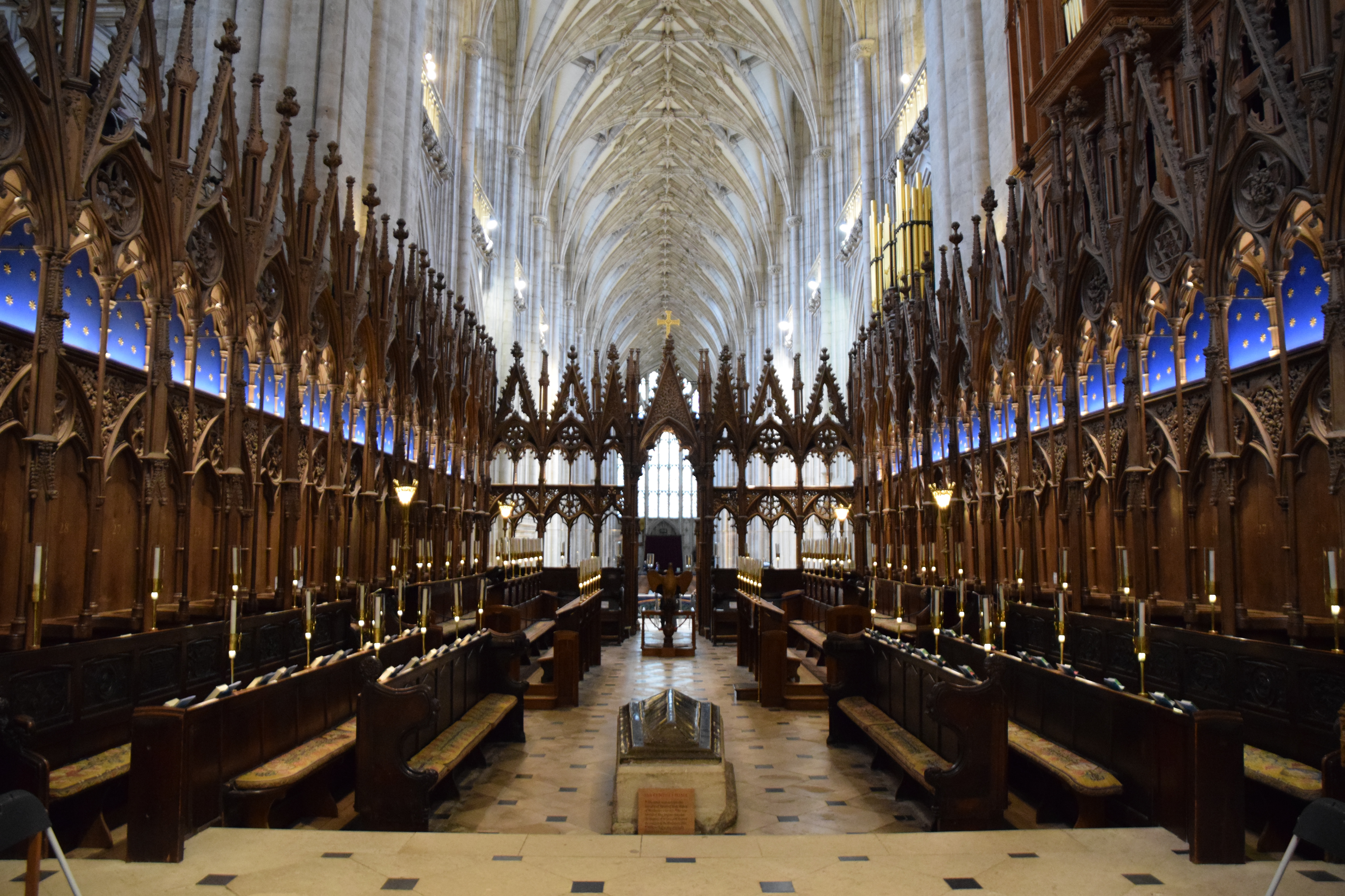 Winchester Cathedral (Holy Trinity), Hampshire, 8 February 2019. Pictured is the 16th Perpendicular quire with early 14th Century stalls by William Lyngwode, some of the finest quire furniture in Europe of the time. They are the oldest intact stalls in England. Note the 12th Century tomb of Bishop Henri di Blois.